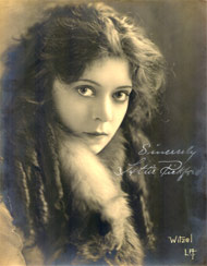 It is of Lottie Pickford for use in her article.